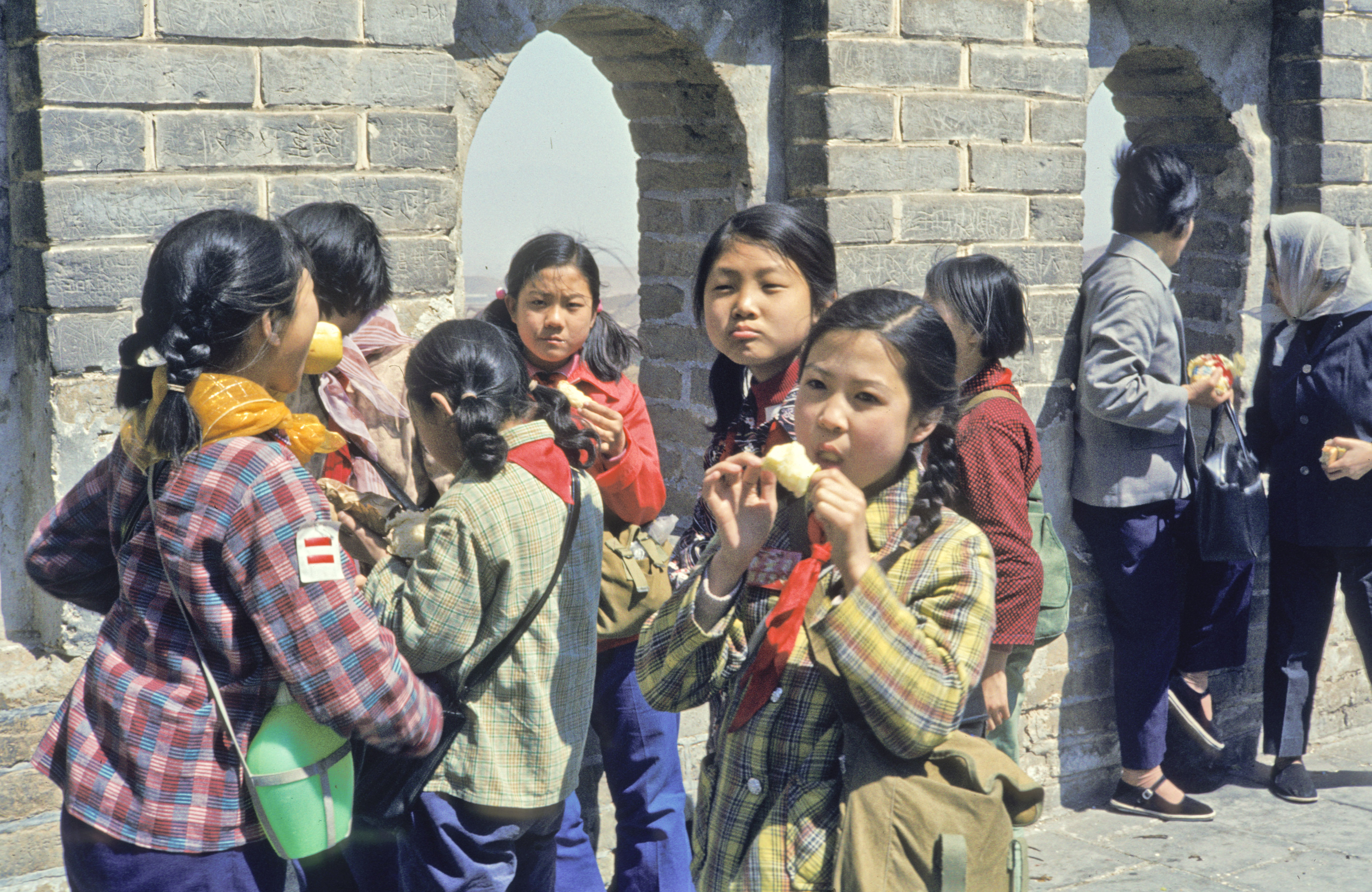 China in 1982, locality unknown